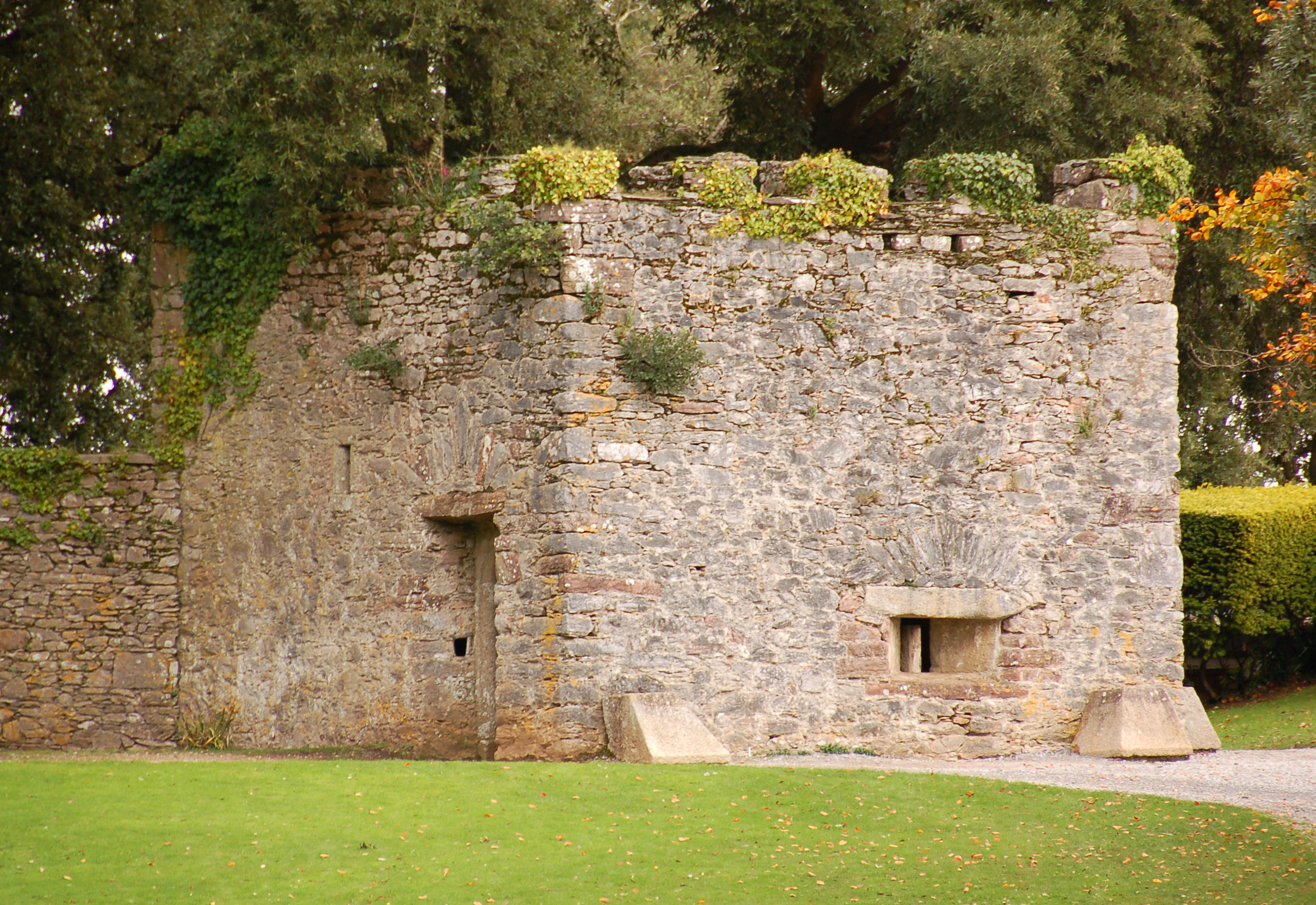 Tudor blockhouse in the gardens at Mount Edgcumbe, Cornwall overlooking the mouth of the River Tamar.